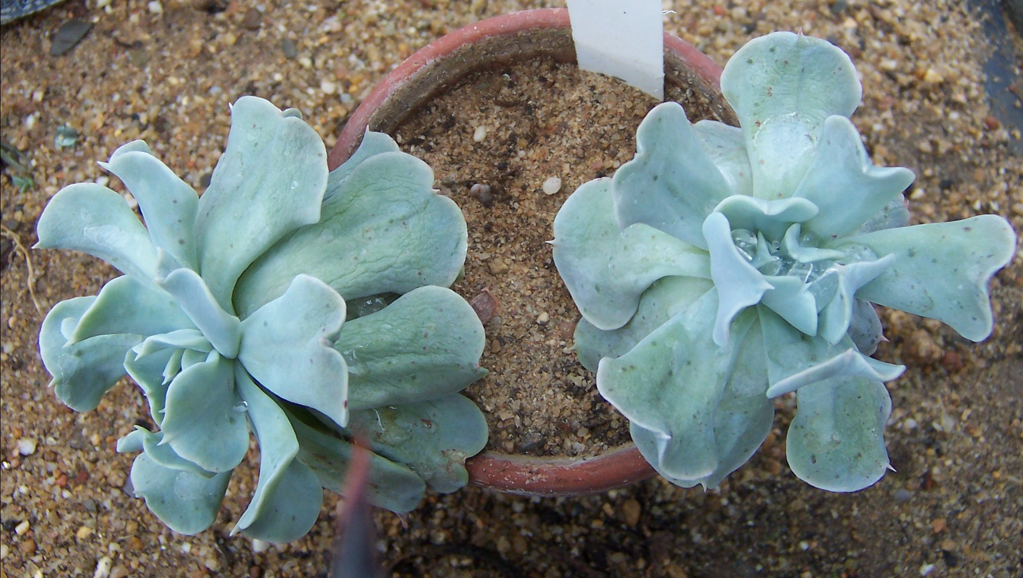 Echeveria sp., habitus. Supposedly Echeveria subrigida; maybe a cultivar of that species but certainly not the typical form.